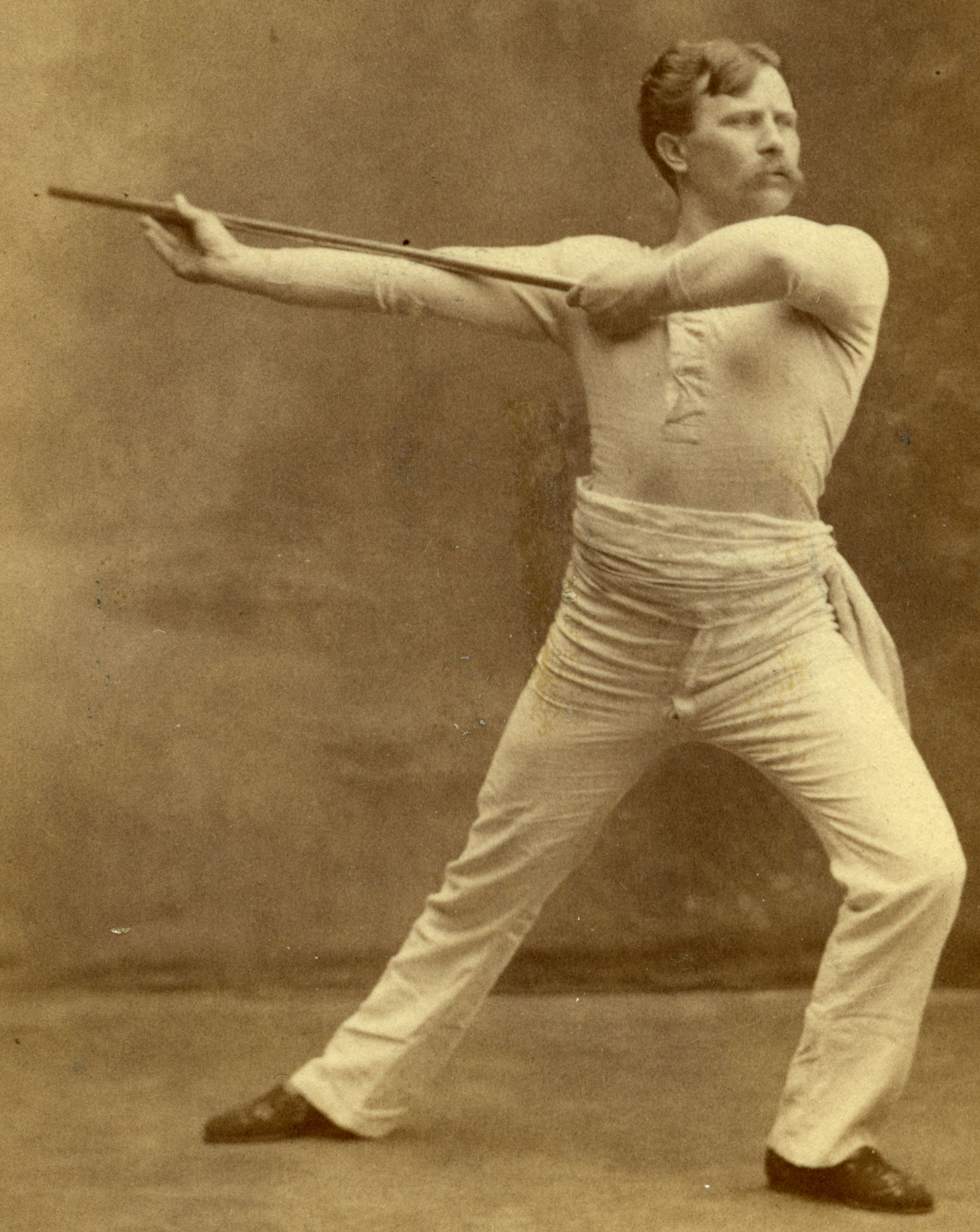 Photograph of the Finnish gymnastics educator Icar Wilskman (1854–1932).